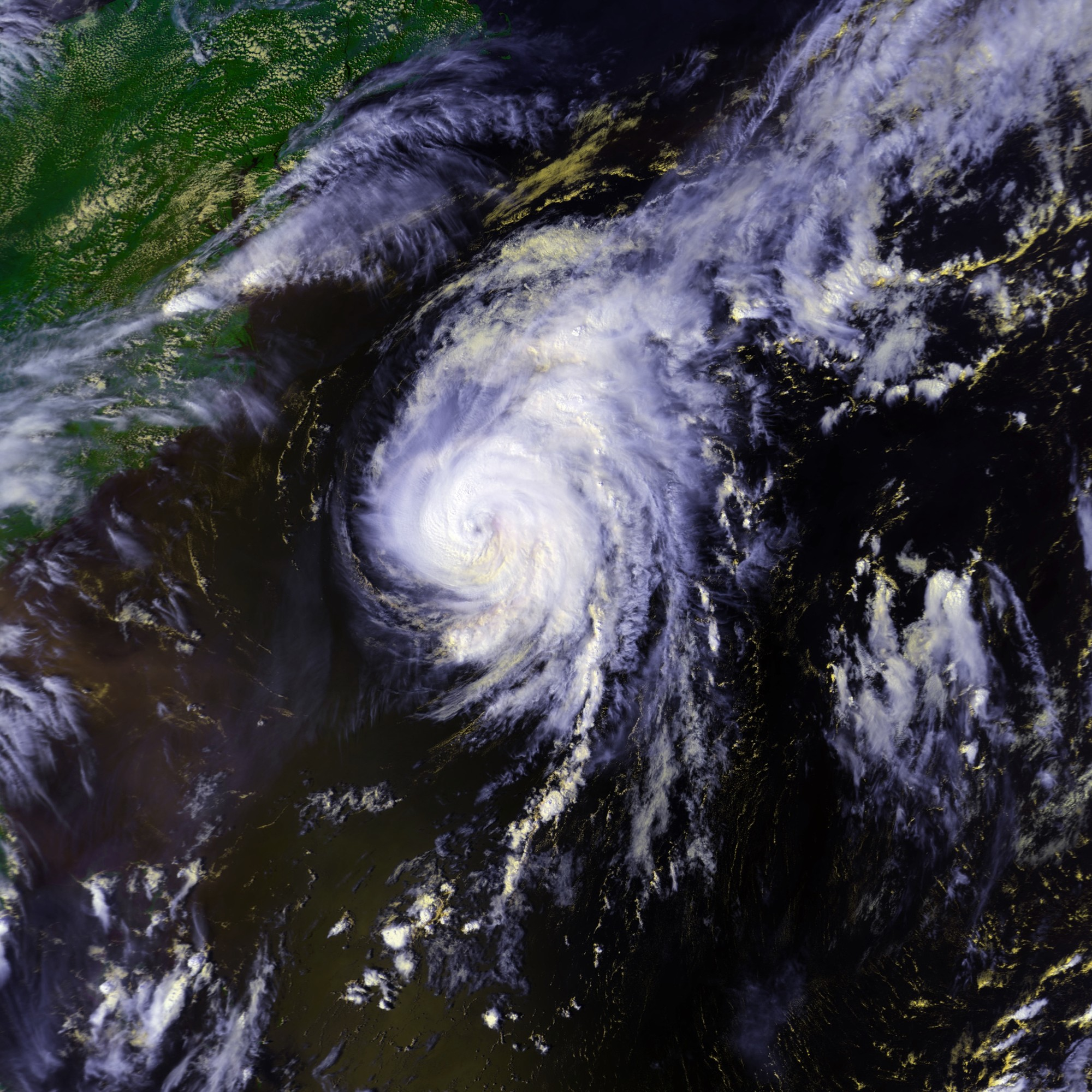 Hurricane Danielle at peak intensity on September 1 at 1858 UTC. This image was produced from data from NOAA-14, provided by NOAA. Maximum sustained winds were 105 mph and the minimum central pressure was 965 mb.